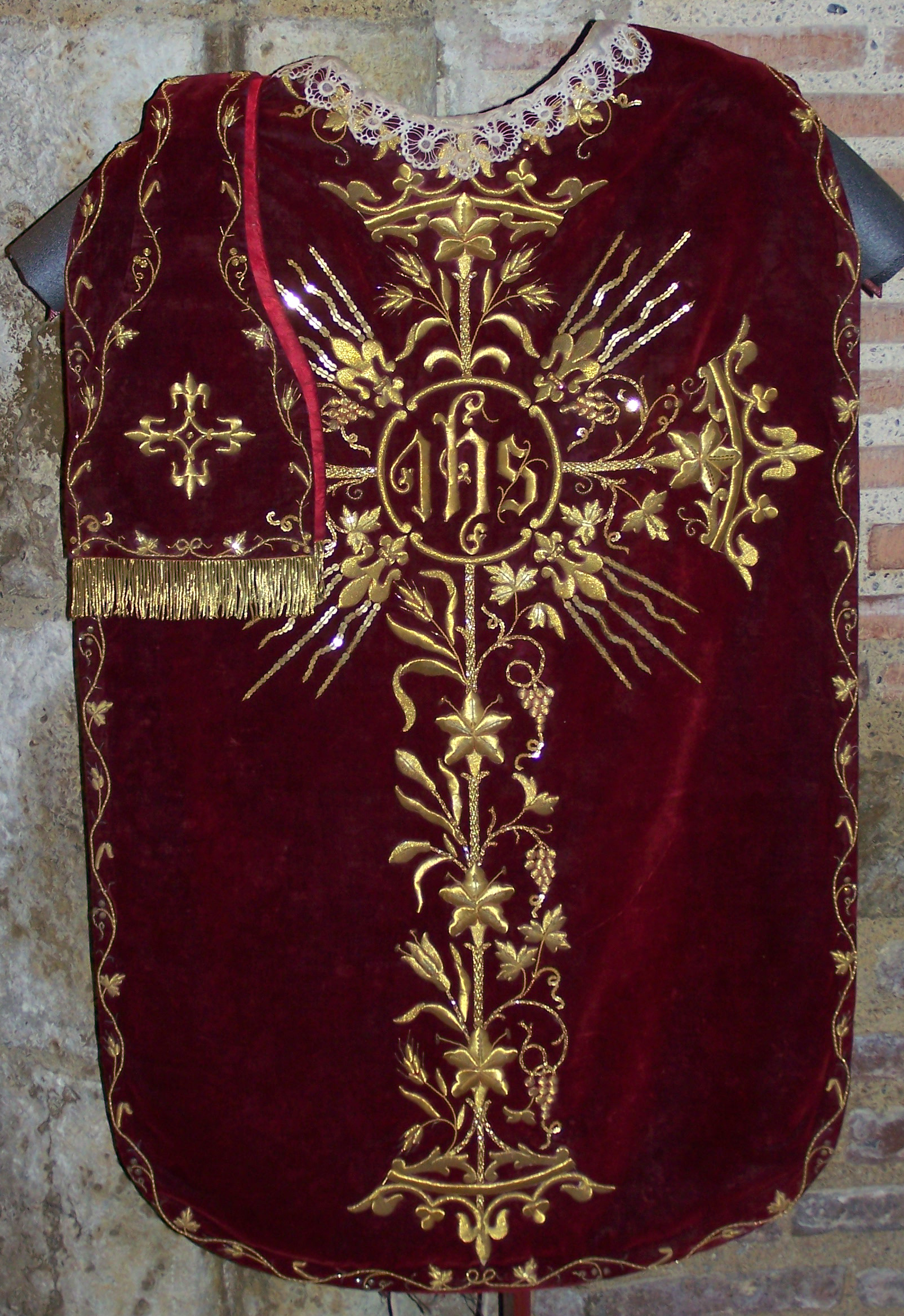 Red velvet chasuble and stole embroidered with golden metallic thread, golden wire and golden metallic ornaments, handmade lace collar - Cathédrale Sainte Marie de Lombez